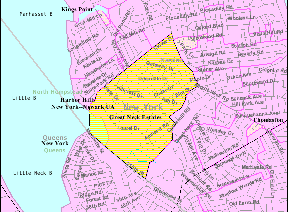 U.S. Census 2000 reference map for Great Neck Estates, New York